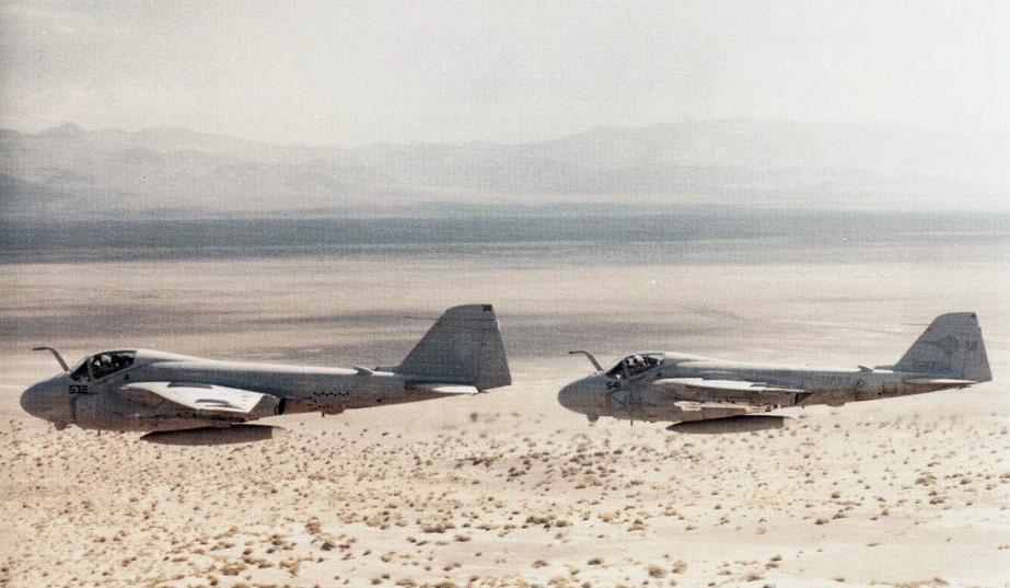 Two U.S. Navy Grumman A-6E Intruder (BuNo 155716, 158045) from Attack Squadron VA-36 "Roadrunners" during a sortie in the 1991 Gulf War. VA-36 was assigned to Carrier Air Wing 8 (CVW-8) aboard the aircraft carrier USS Theodore Roosevelt (CVN-71) for a deployment to the Indian Ocean from 28 December 1990 to 28 June 1991.